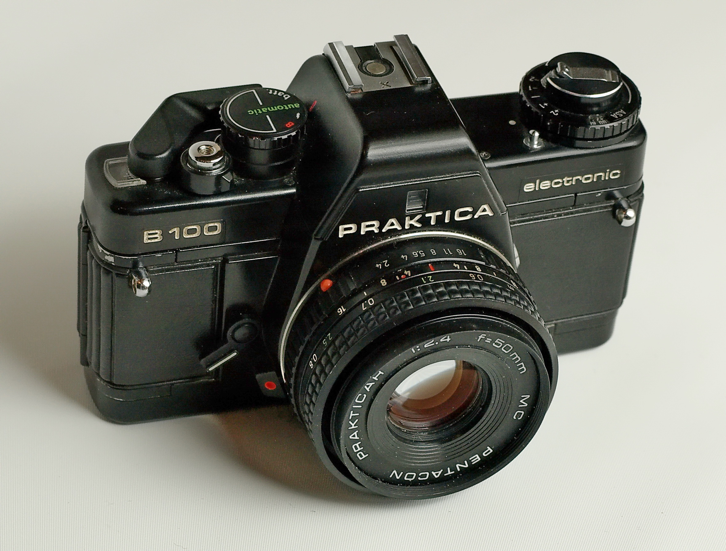 Practika B100 Electronic. Pentacon Prakticar f 1:2,4 50mm.